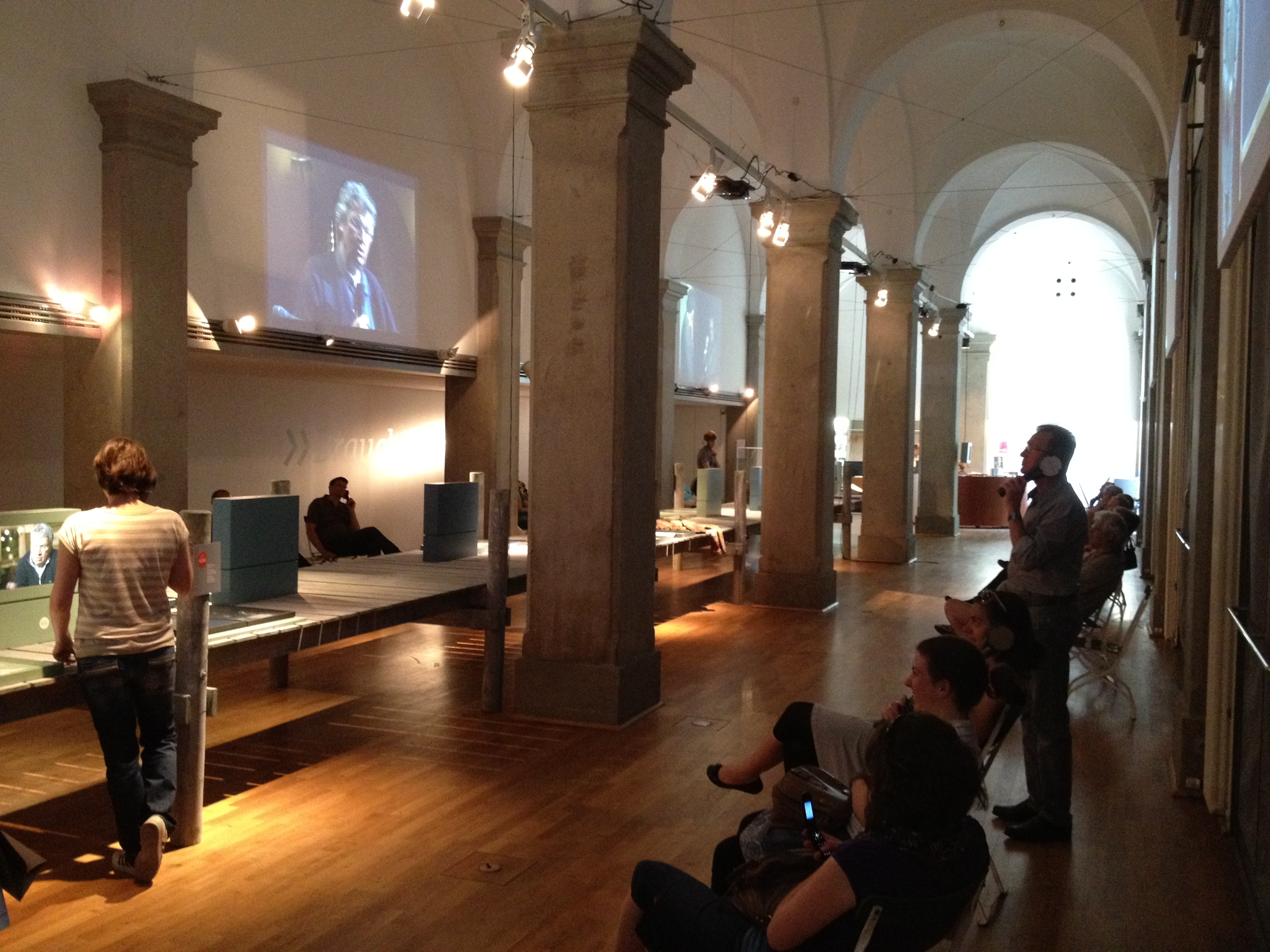 Gerhard Polt